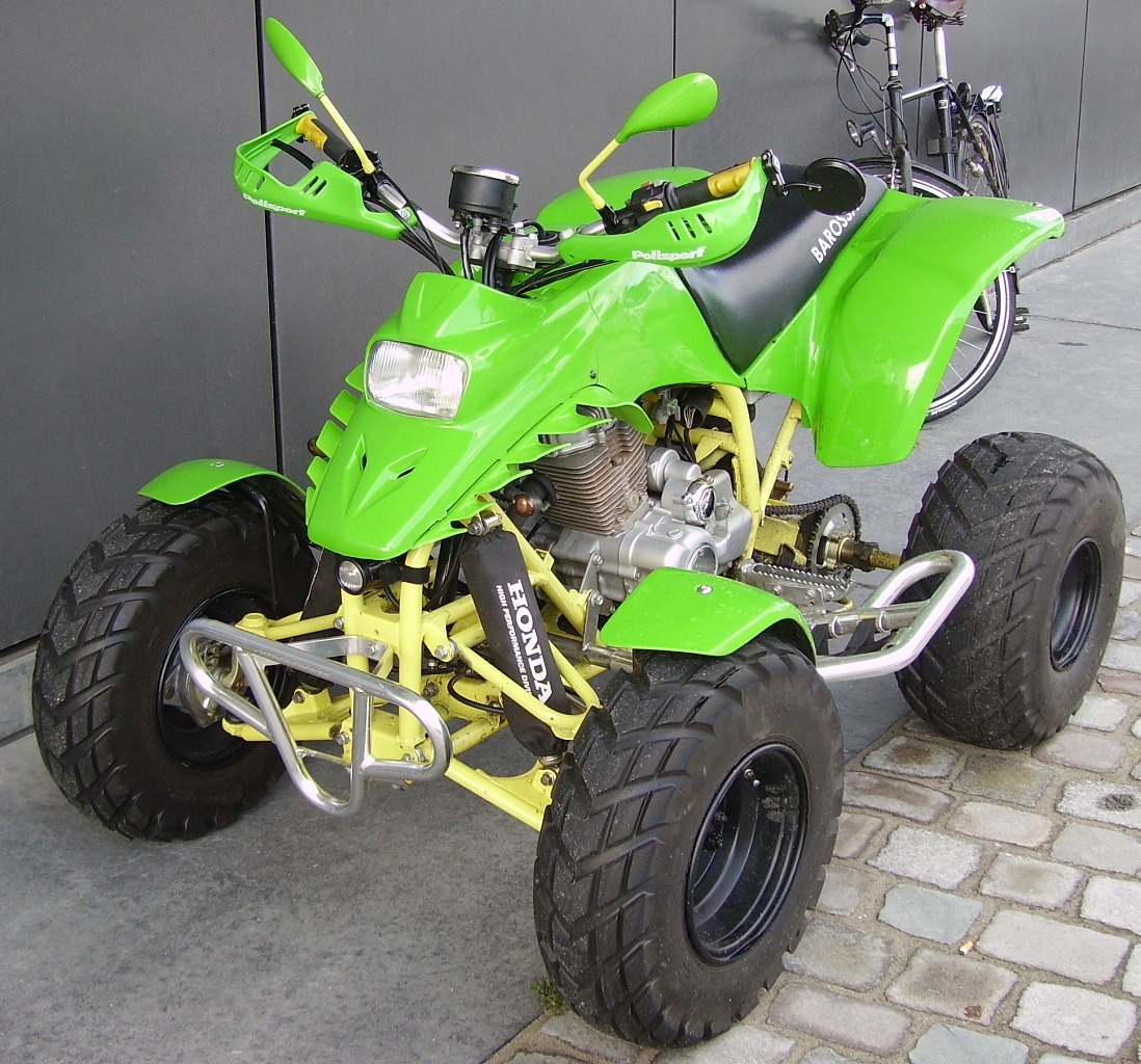 A Honda quad bike. Also known as four-wheeler or ATV (All-terrain vehicle)